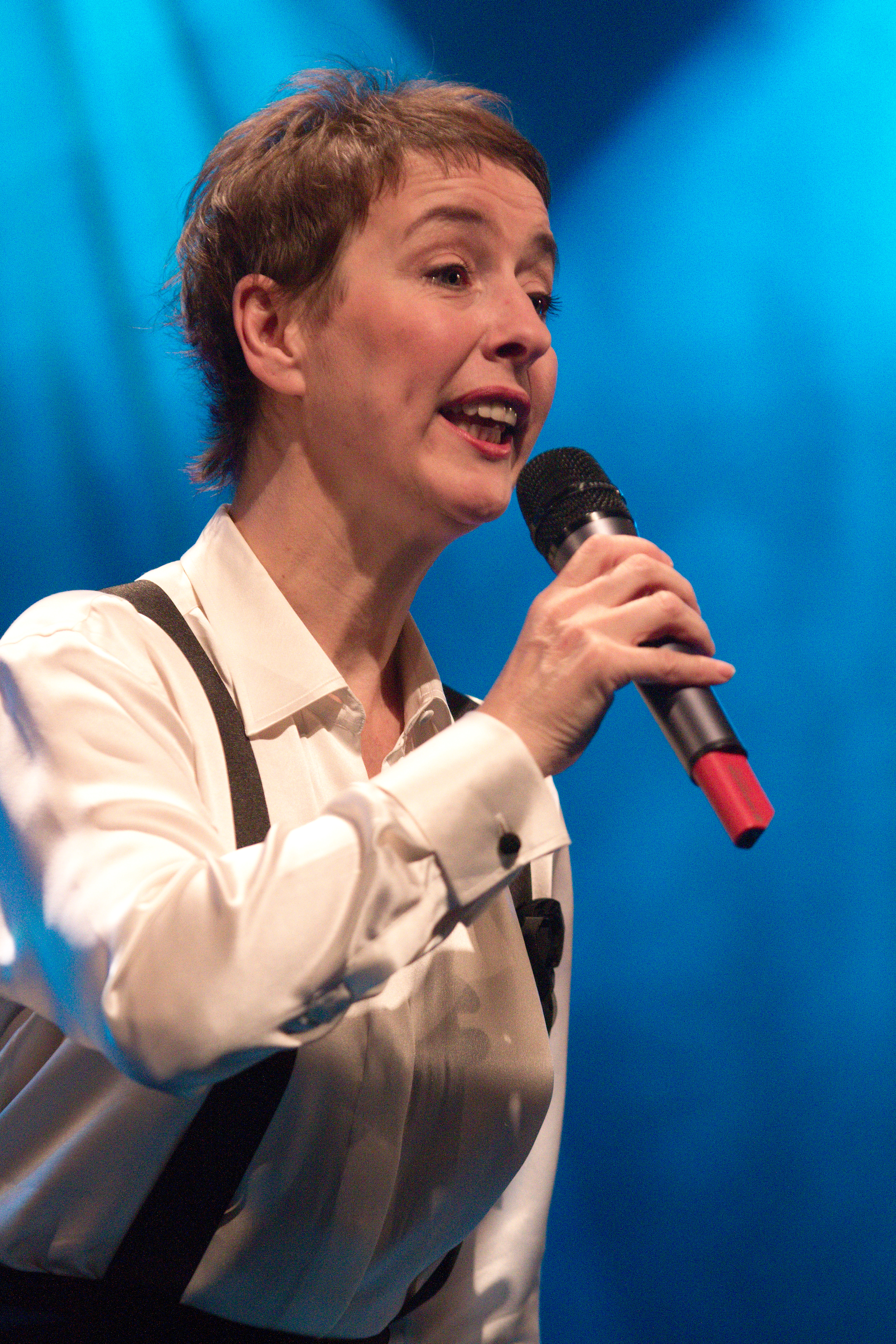 Enzo Enzo live during the French song festival 2010 in Aix-en-Provence (France).